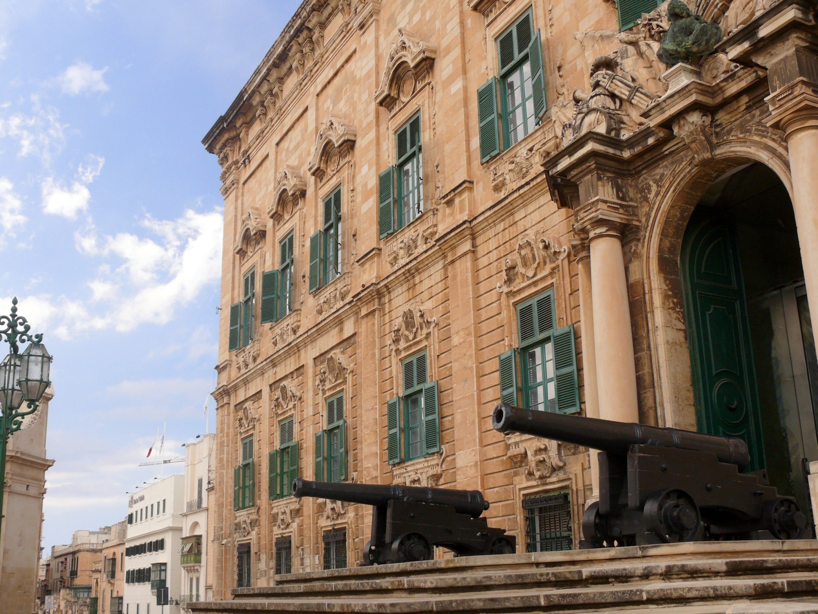 The 'Auberge de Castille' in Valletta. Designed by Ġlormu Cassar, the building serves as the office of the Prime Minister of Malta.